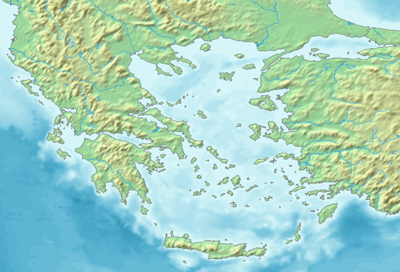 Agean non political